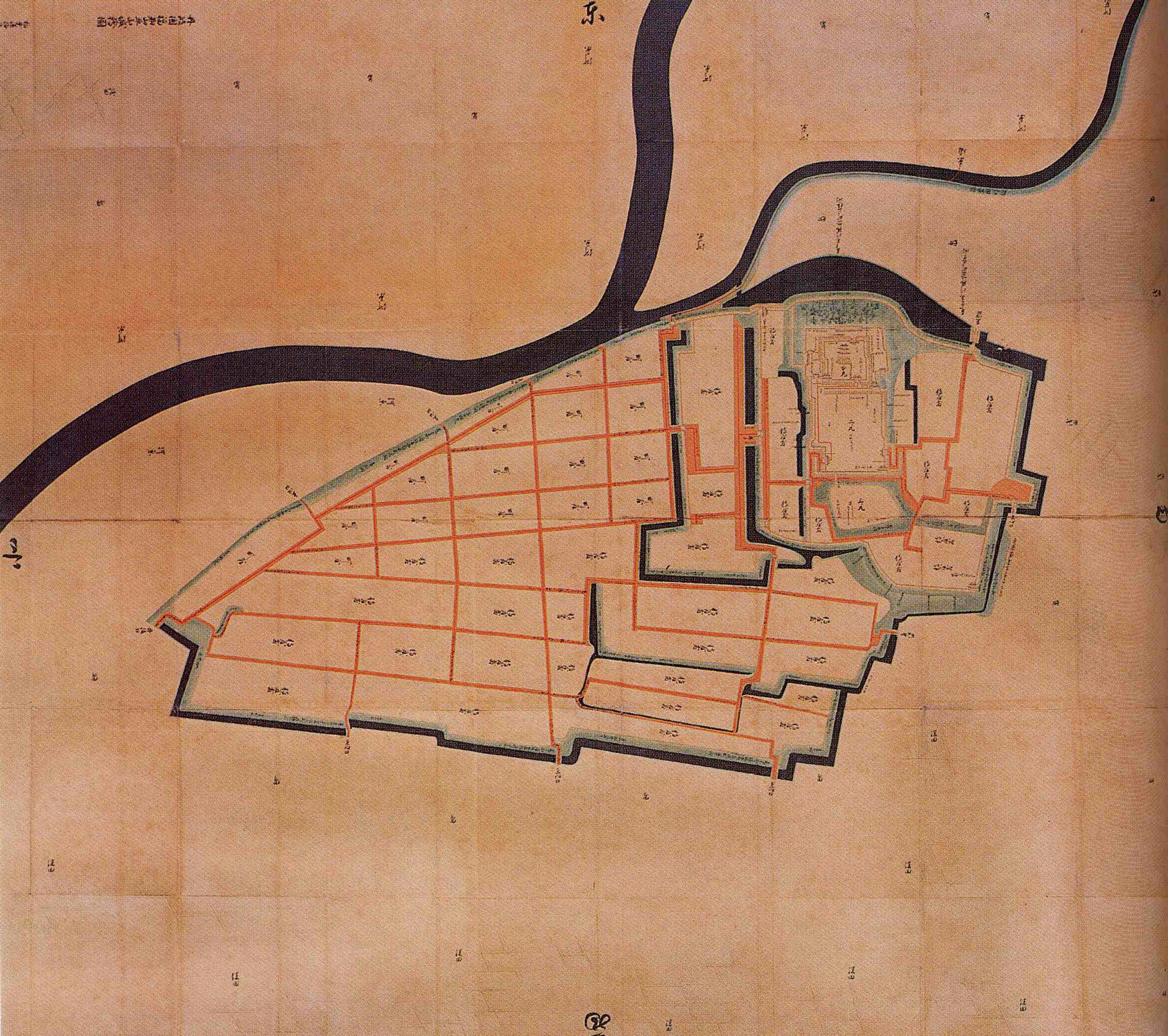 Plan of Fukuchiyama Castle, Tamba Province (present Kyoto Prefecture), Japan